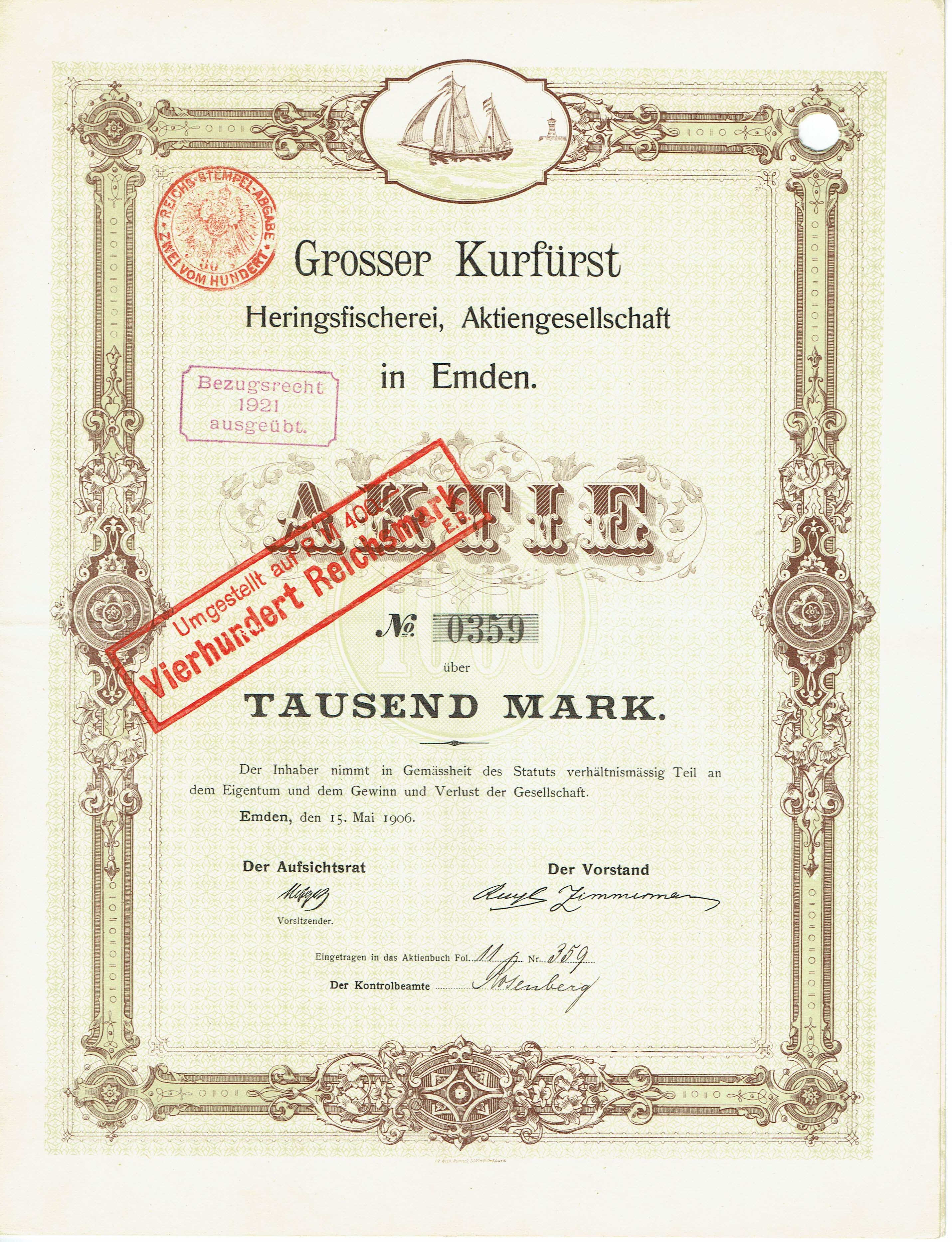 Share of the Grosser Kurfürst Heringsfischerei AG, issued 15. May 1906